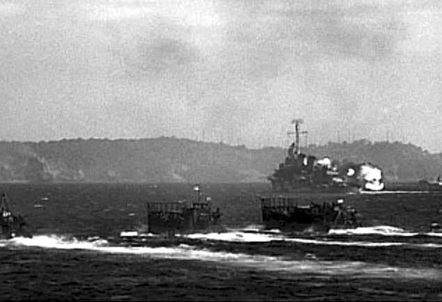 The U.S. Navy destroyer USS Claxton (DD-571) shelling Corregidor, in February 1945.